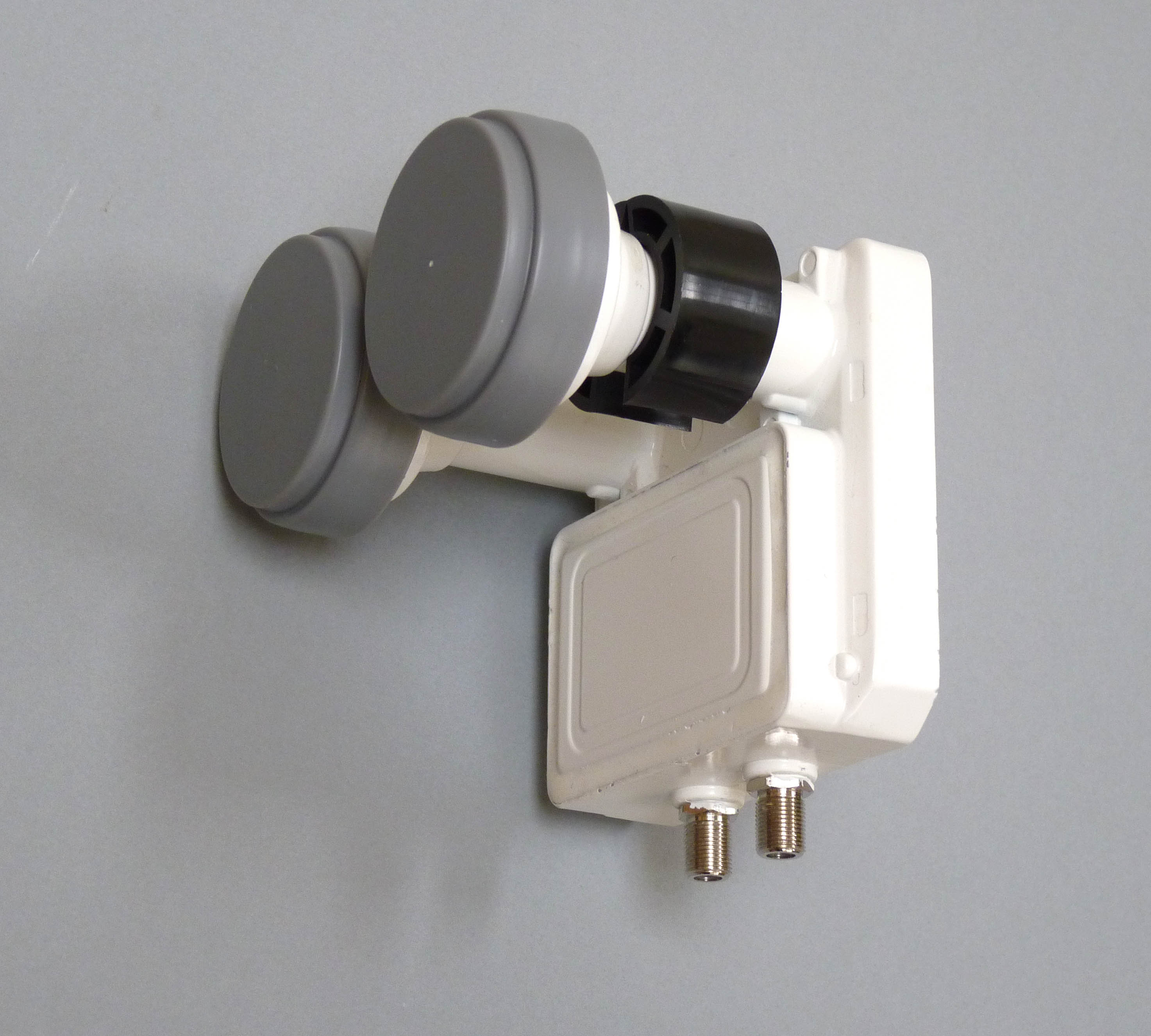 Twin-output monoblock LNB for 19.2E/13E